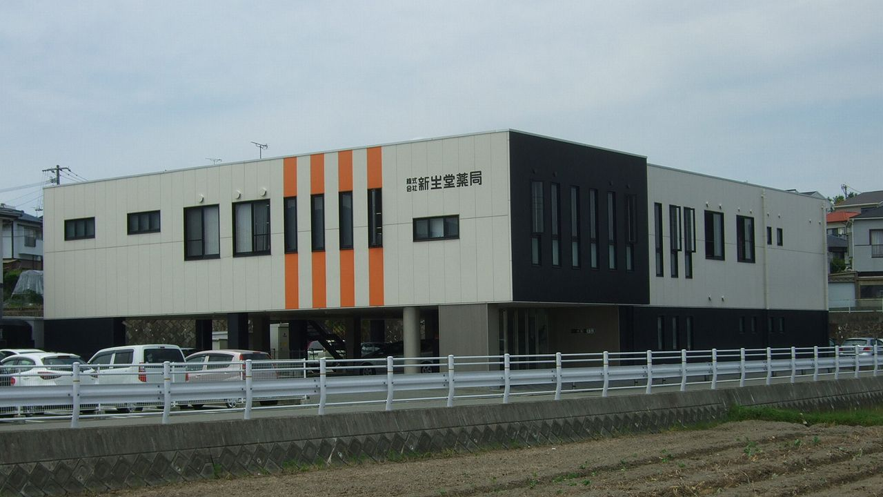 Shinseidoyakkyoku headquarters, Minami Ward, Fukuoka City, Fukuoka, Japan.